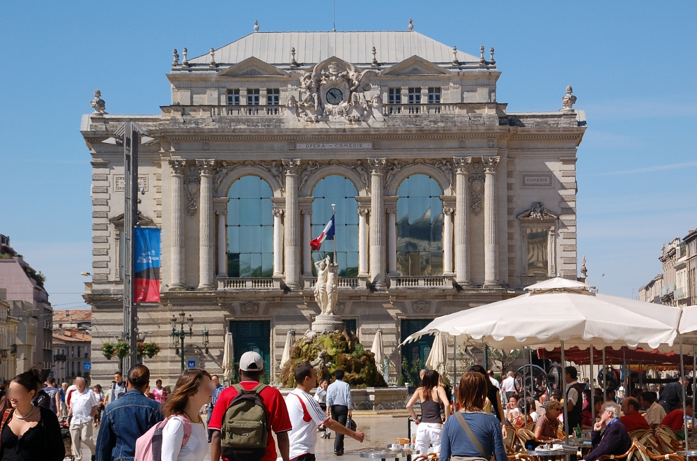 Opera, Montpellier, Languedoc-Roussillon, France